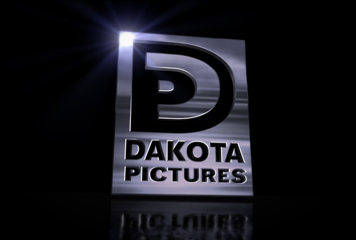 This is one of many logos for Dakota Pictures.